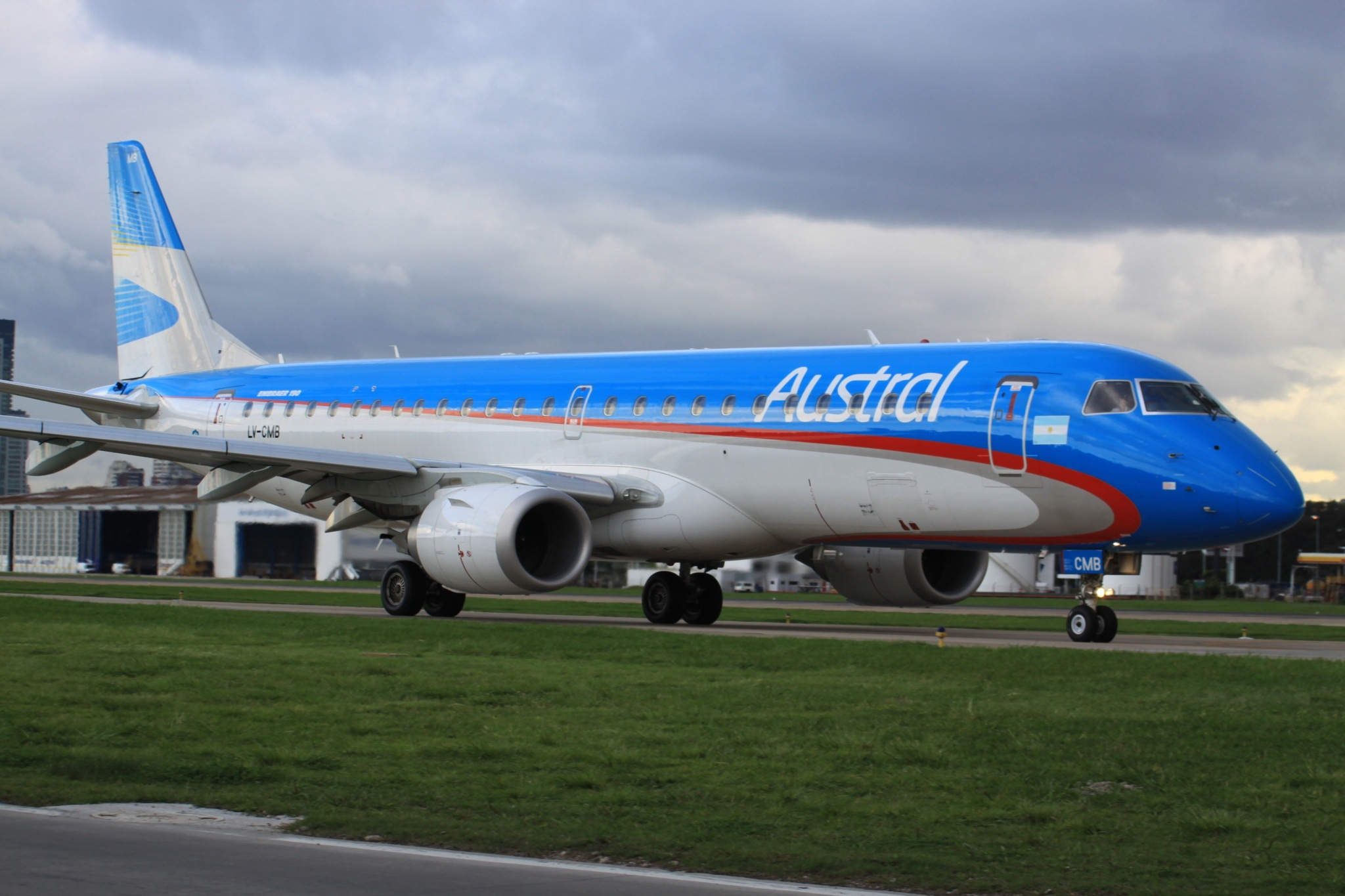 At Buenos Aires Aeroparque